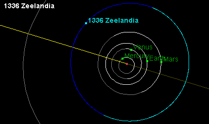 (1336) Zeelandia